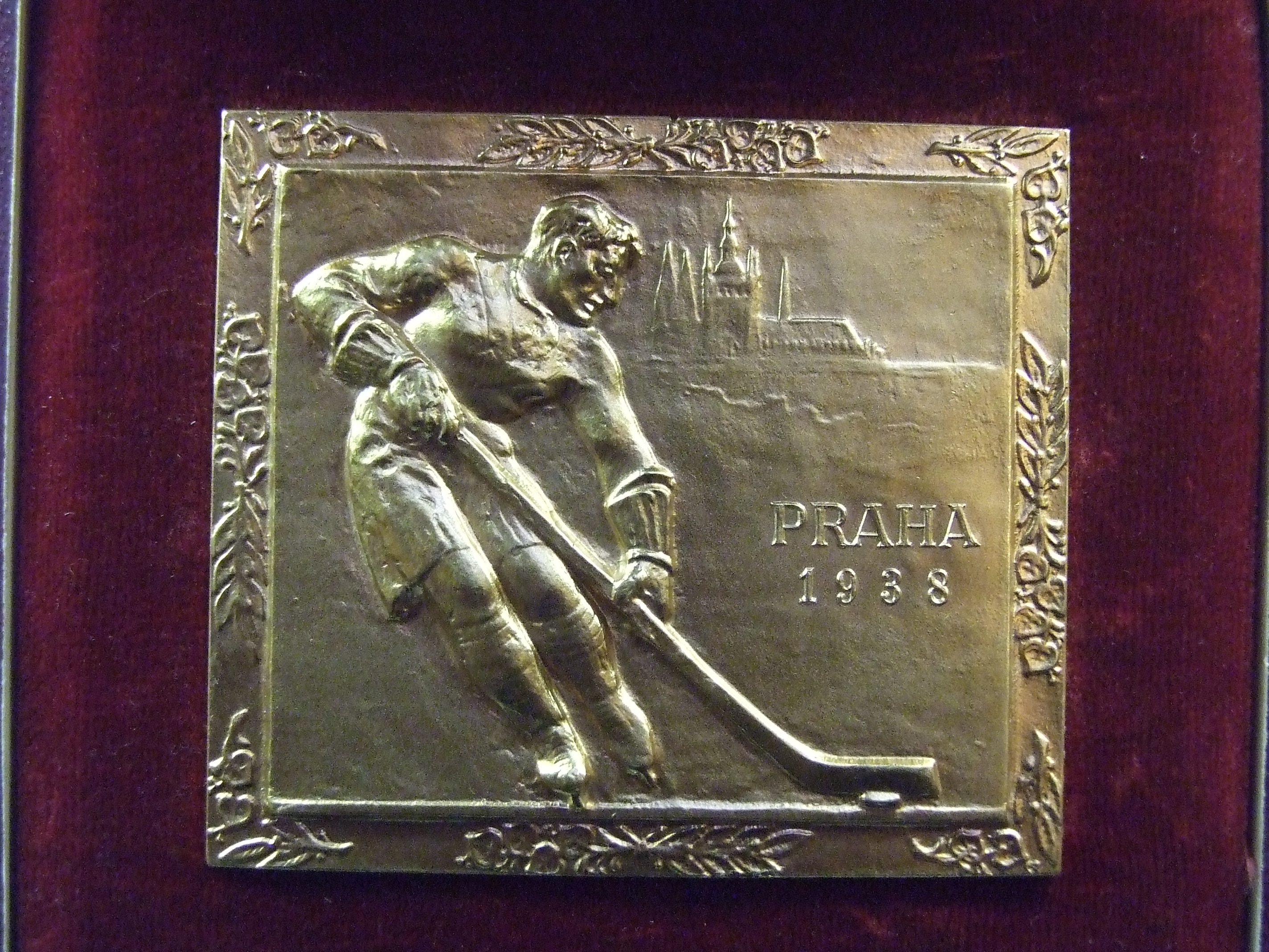 The World Championship in ice hockey held in Prague in 1938 - One Century Of Czech Ice Hockey Exhibition, National Museum in Prague: [1]